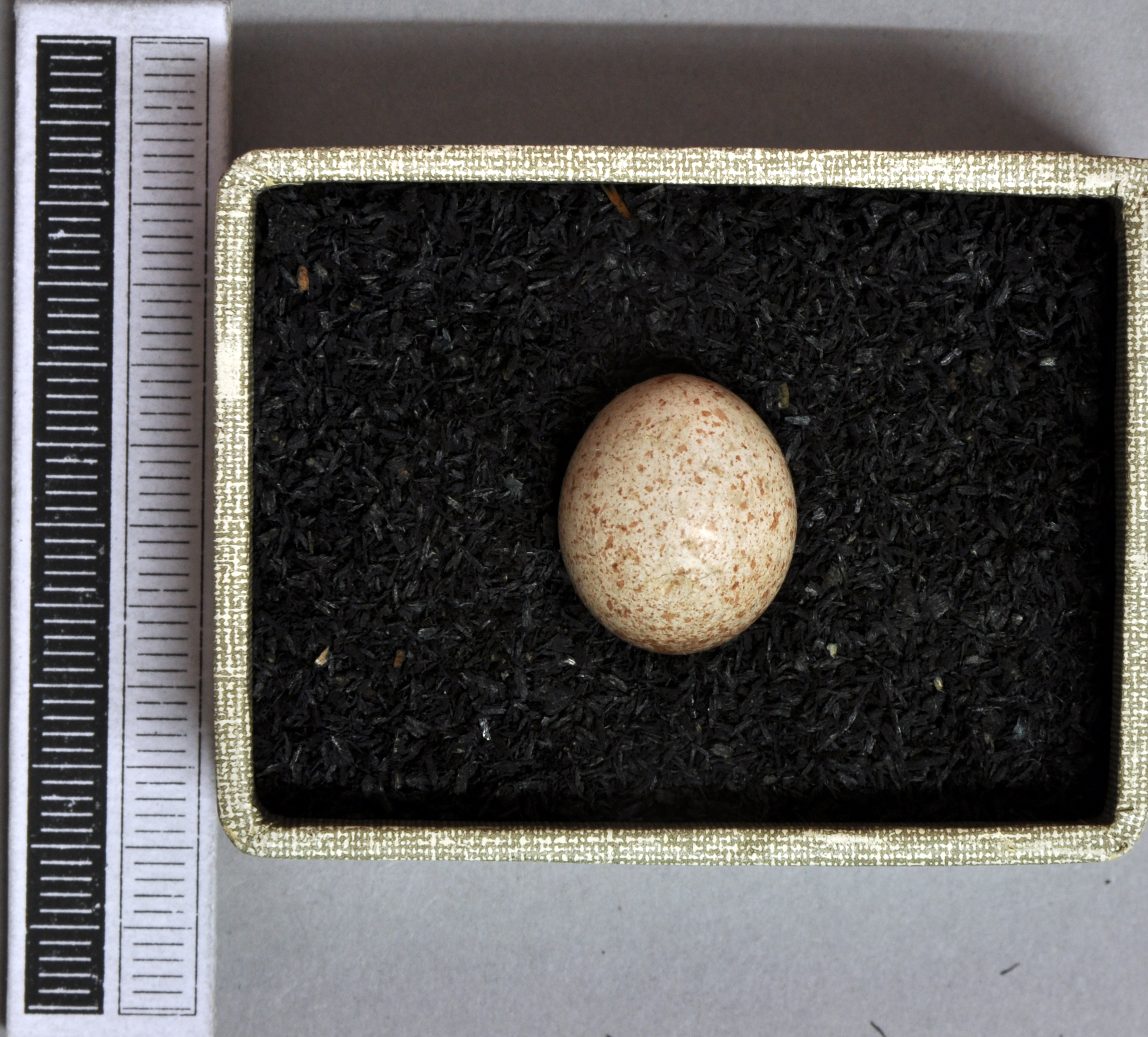 Sedge warbler Acrocephalus schoenobaenus , egg, Coll. Museum Wiesbaden